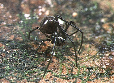 male Conoculus lyugadinus from Okinawa.